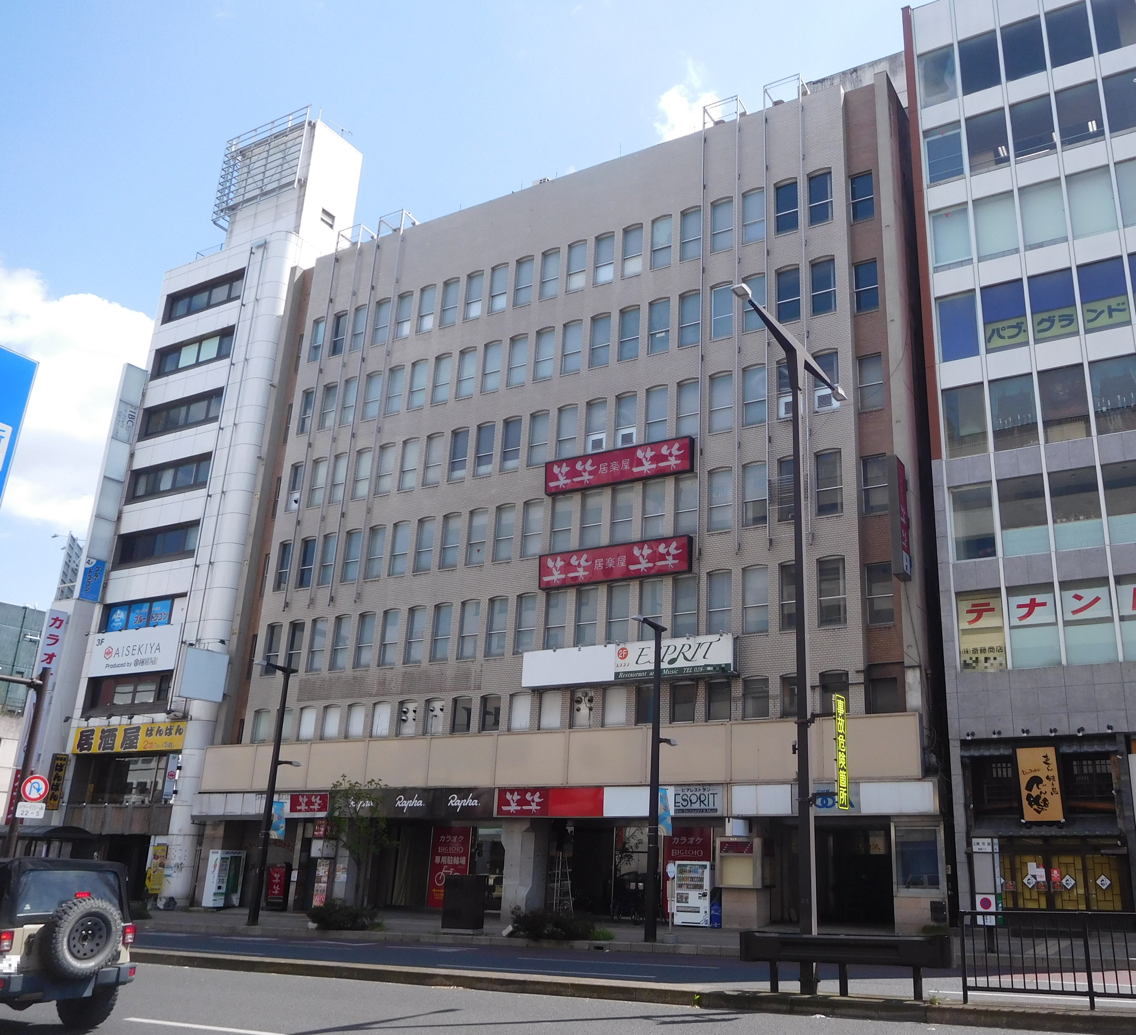 This is Nakamura First Building in Utsunomiya, Tochigi, Japan.